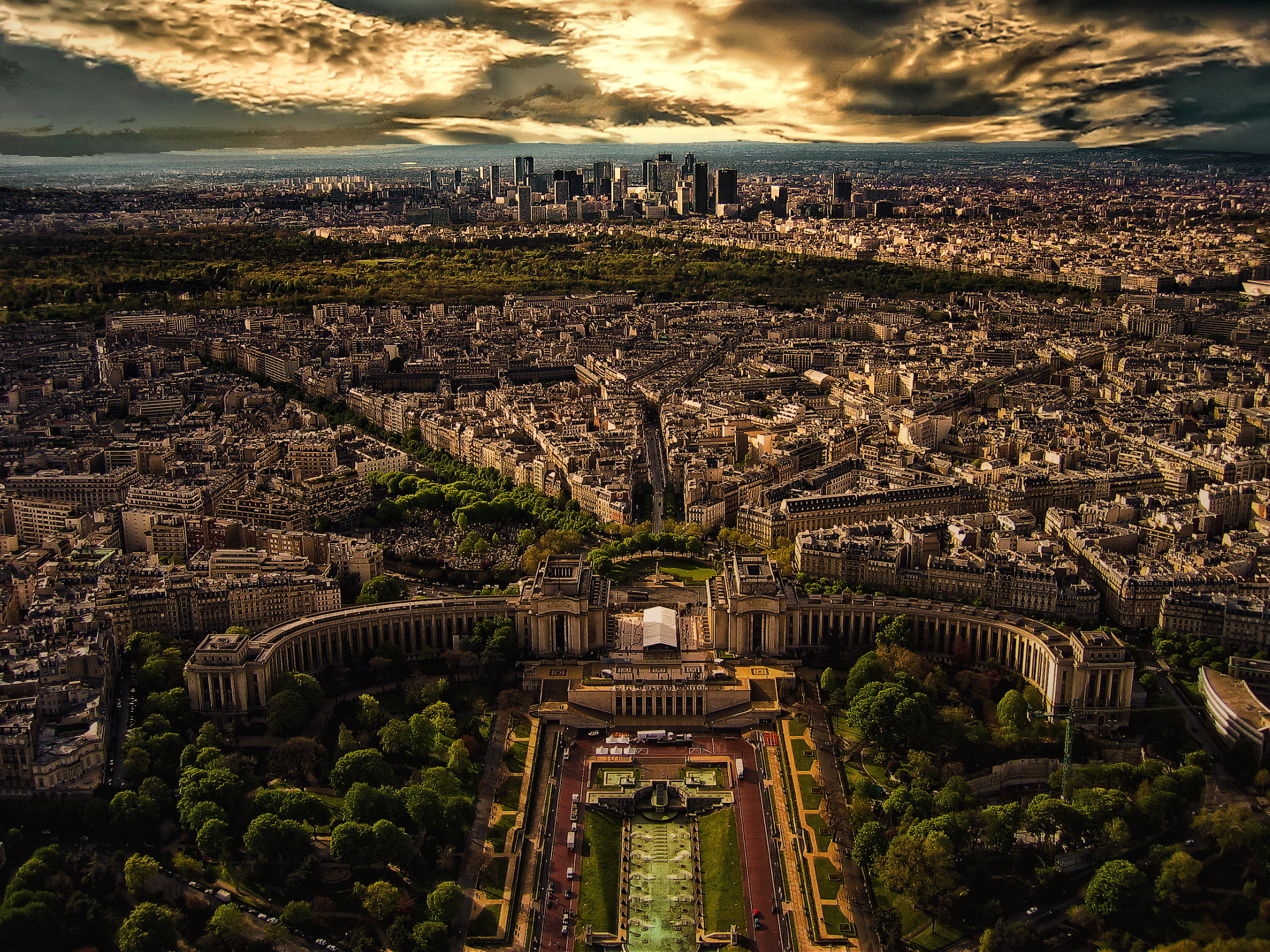 Paris from above